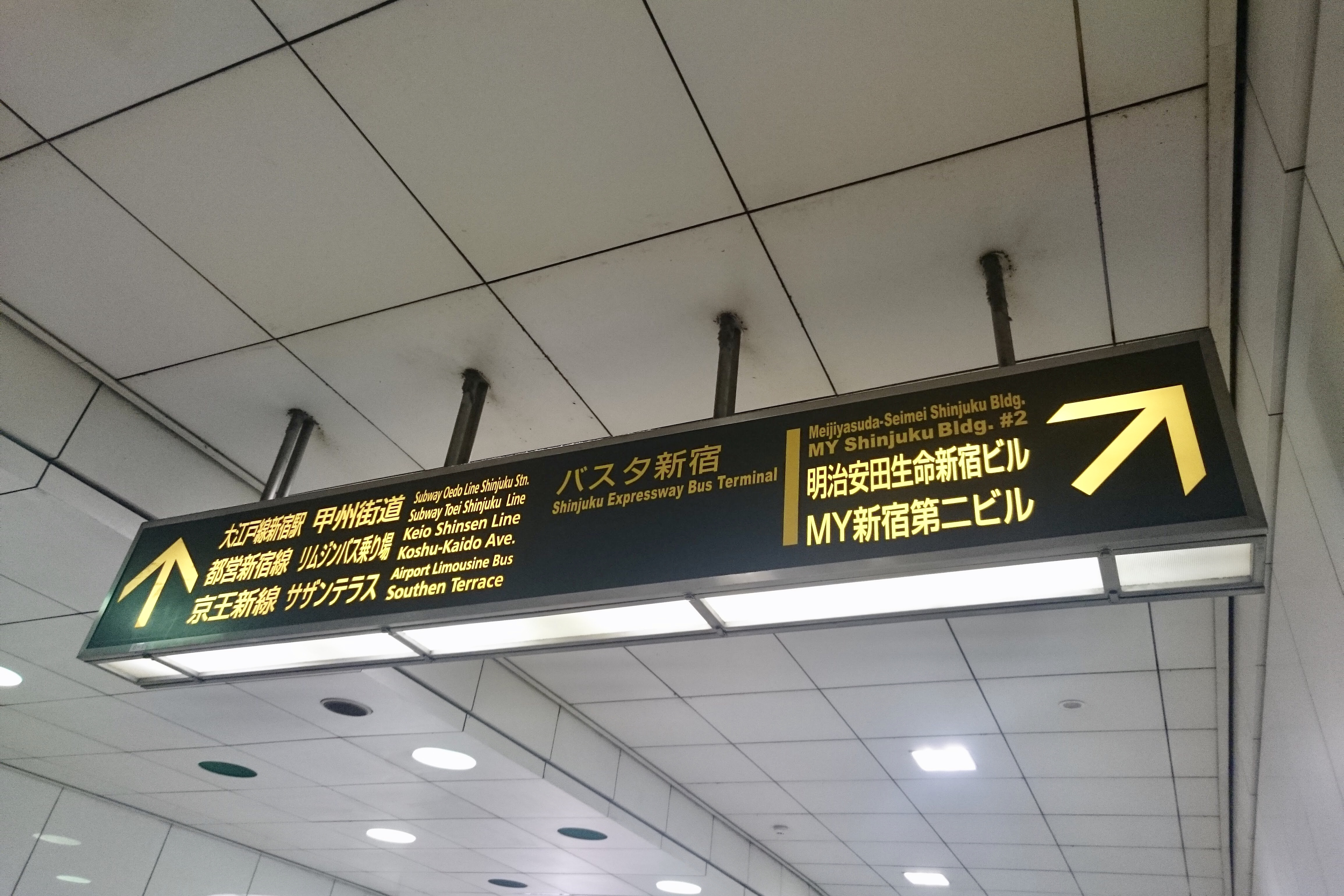 Guide board(2017)